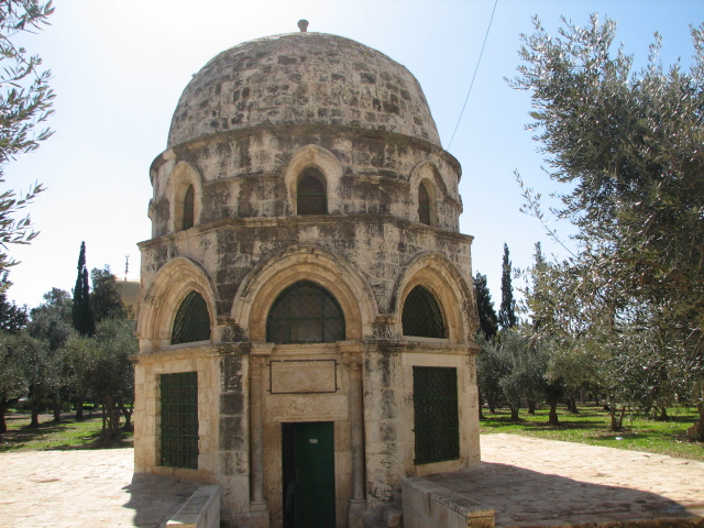 Al-Aqsa Mosque